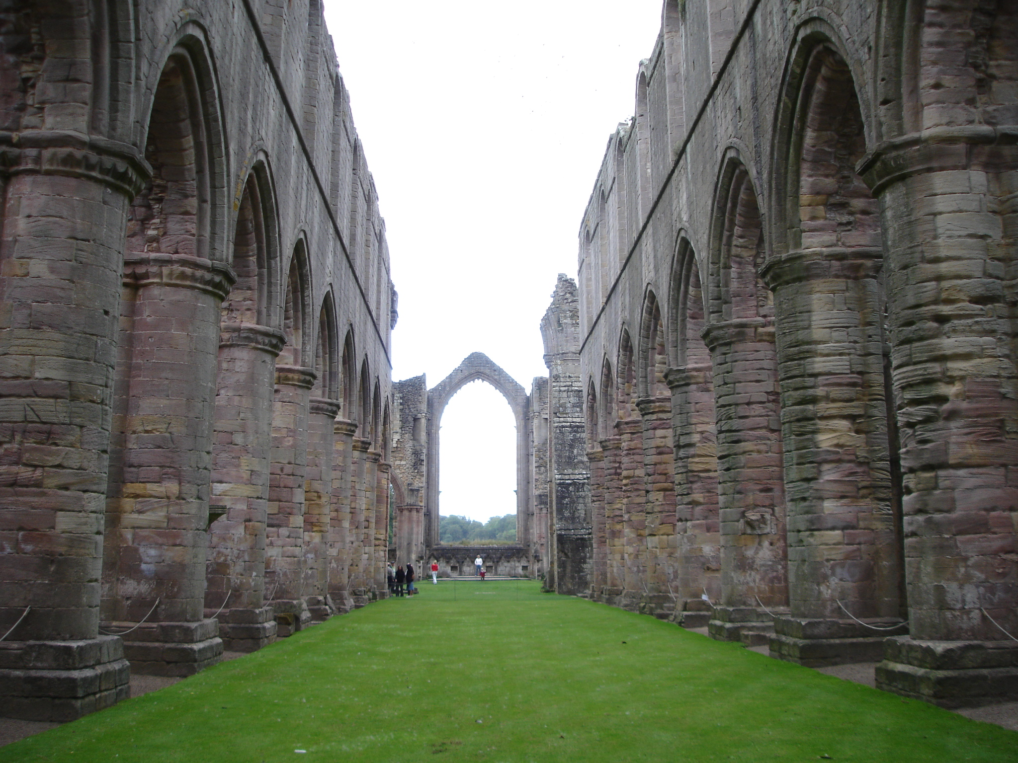 Own Personal Photograph taken August 2006